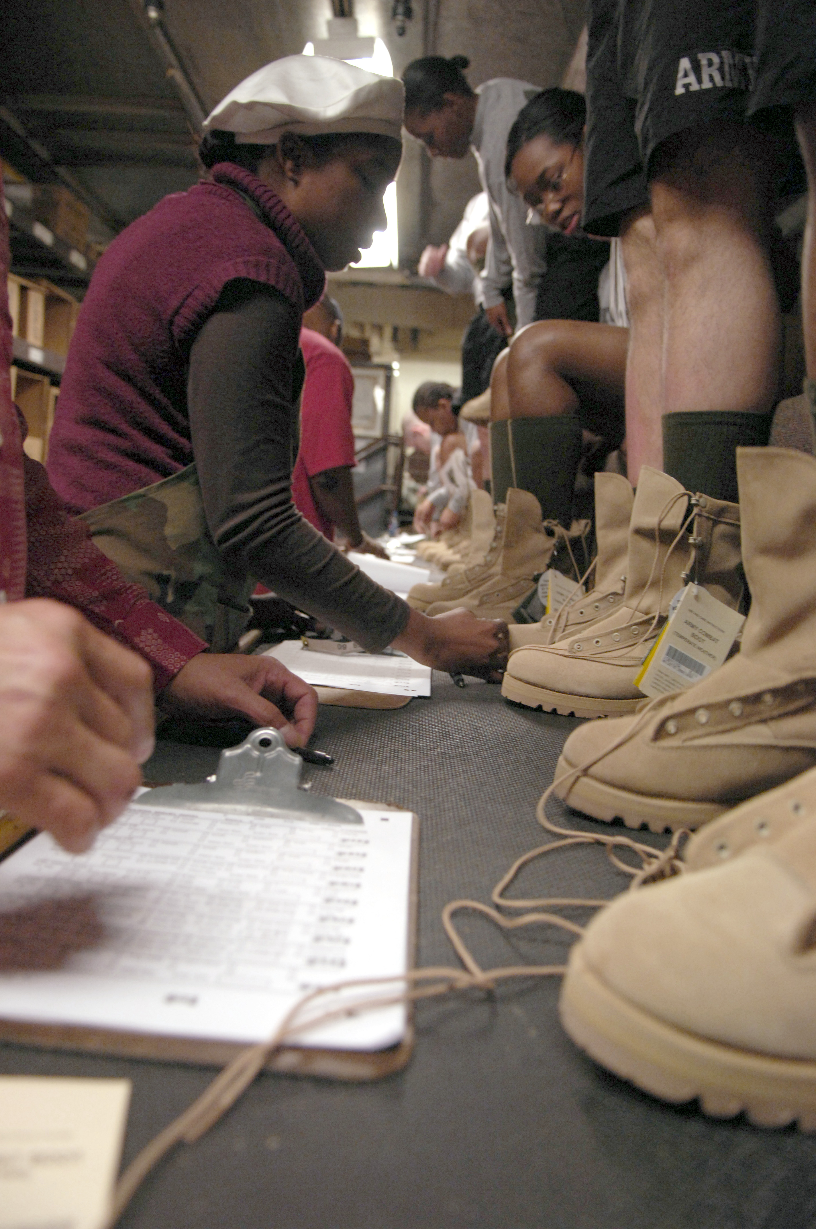 U.S. Army recruits try on boots during basic combat training at Fort Jackson, S.C., Jan. 16, 2008 (U.S. Air Force photo by Staff Sgt. Manuel J. Martinez)